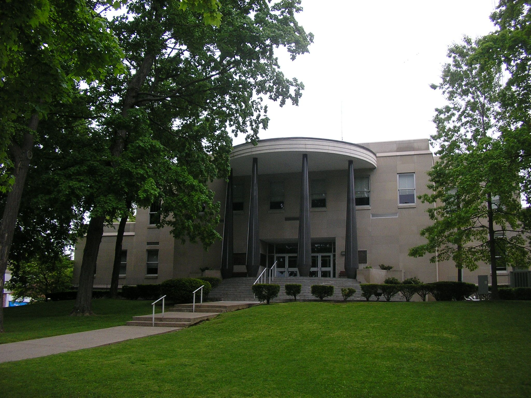 Henderson is a nice little town but as i recall this is a newer courthouse sort of on the far end of town... it really should be right in the center. Ah well.